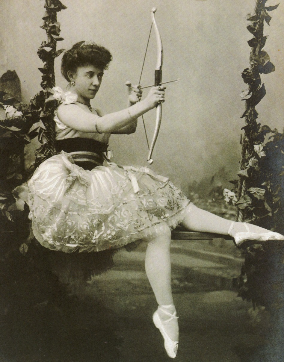 Photo of the ballerina Olga Preobrajenskaya (1871-1962) in the title role of the choreographer Louis Méranté (1828-1887) and the composer Léo Delibes' (1836-1901) 1876 ballet "Sylvia".